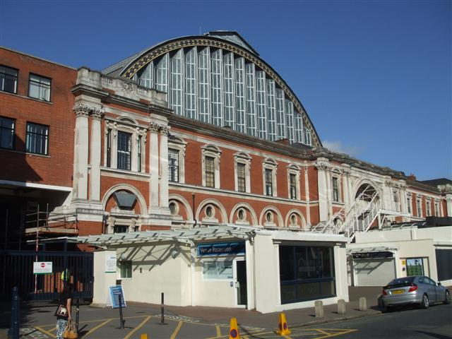 Olympia Exhibition Centre It is located off the Kensington High Street